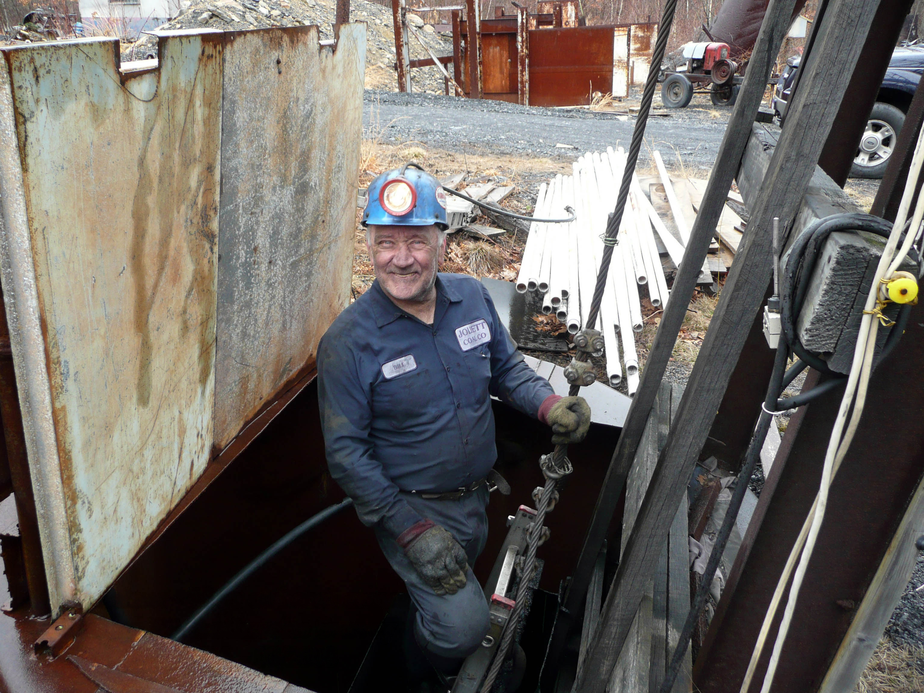 70 year old miner emerging from his undergound coal mine.